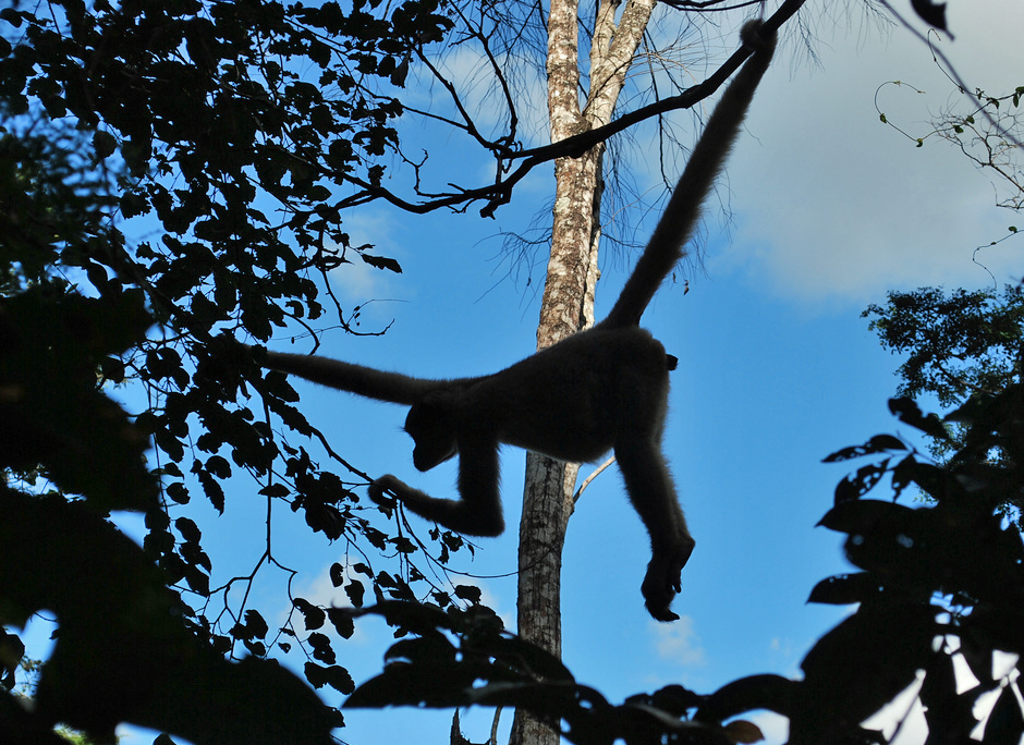 An young female northern muriqui (woolly spider monkey), Brachyteles hypoxanthus, in the Atlantic Forest, Brazil. Original description: "Brachyteles hypoxanthus, muriqui-do-norte, northern muriqui, wooly spider monkey." This photo was taken in Caratinga, Minas Gerais, using a Nikon D60. The original Flickr photo has been modified as follows by WolfmanSF: crop, increase brightness.